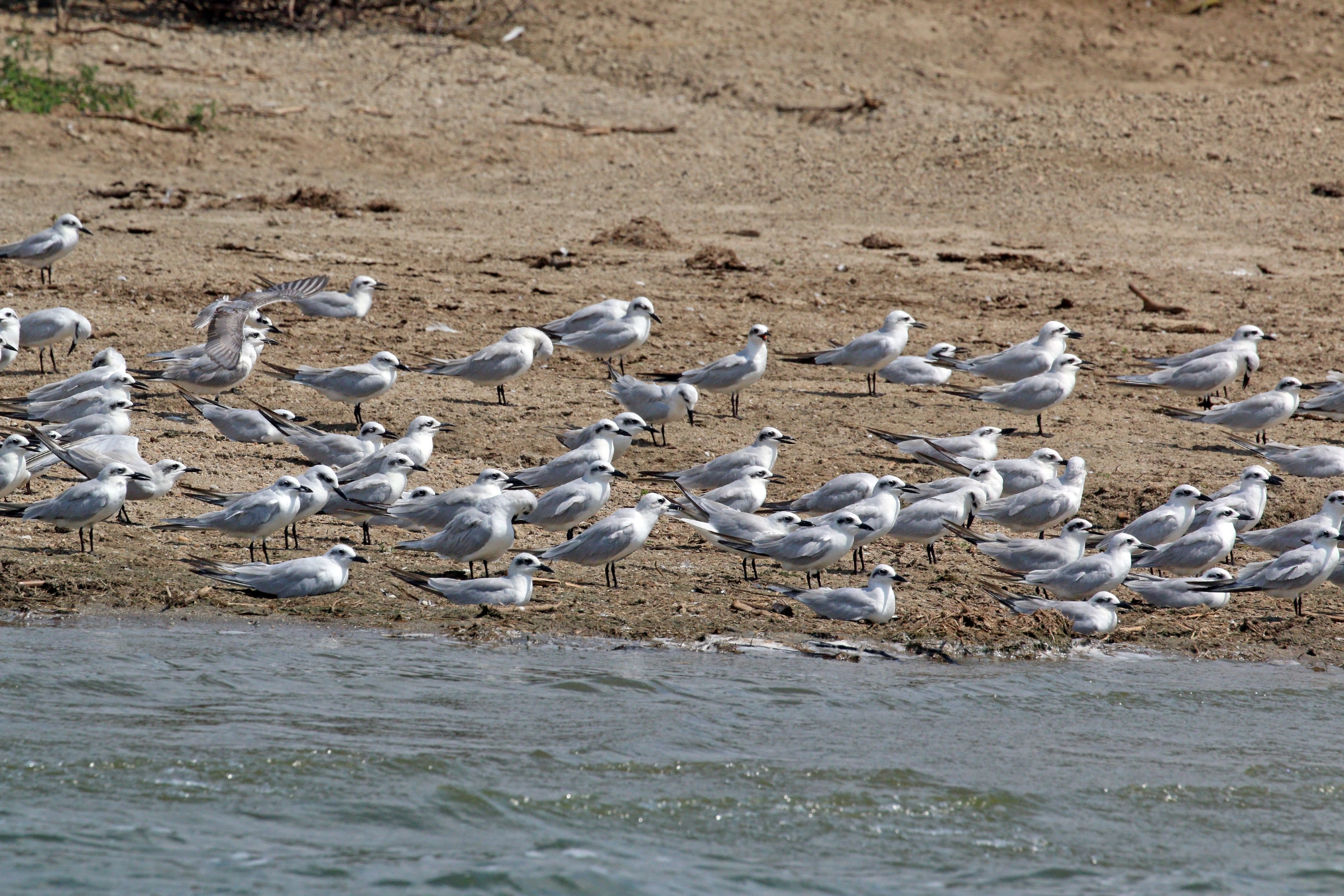 Gull-billed terns (Sterna nilotica), Kazinga Channel, Uganda